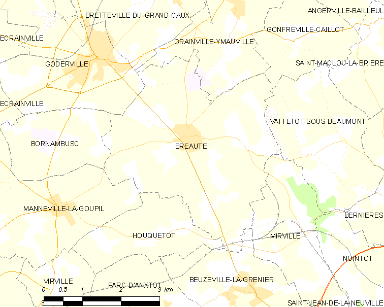 Map of French municipality Bréauté